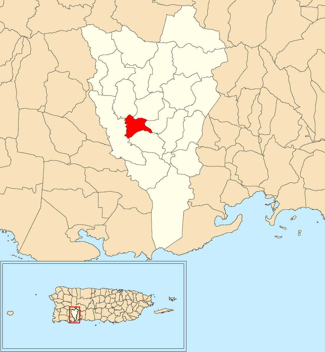 Almácigo Alto, Yauco, Puerto Rico locator map